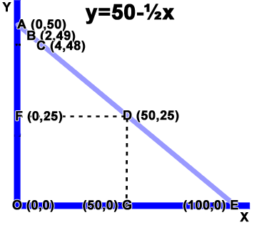 A linear transformation curve.